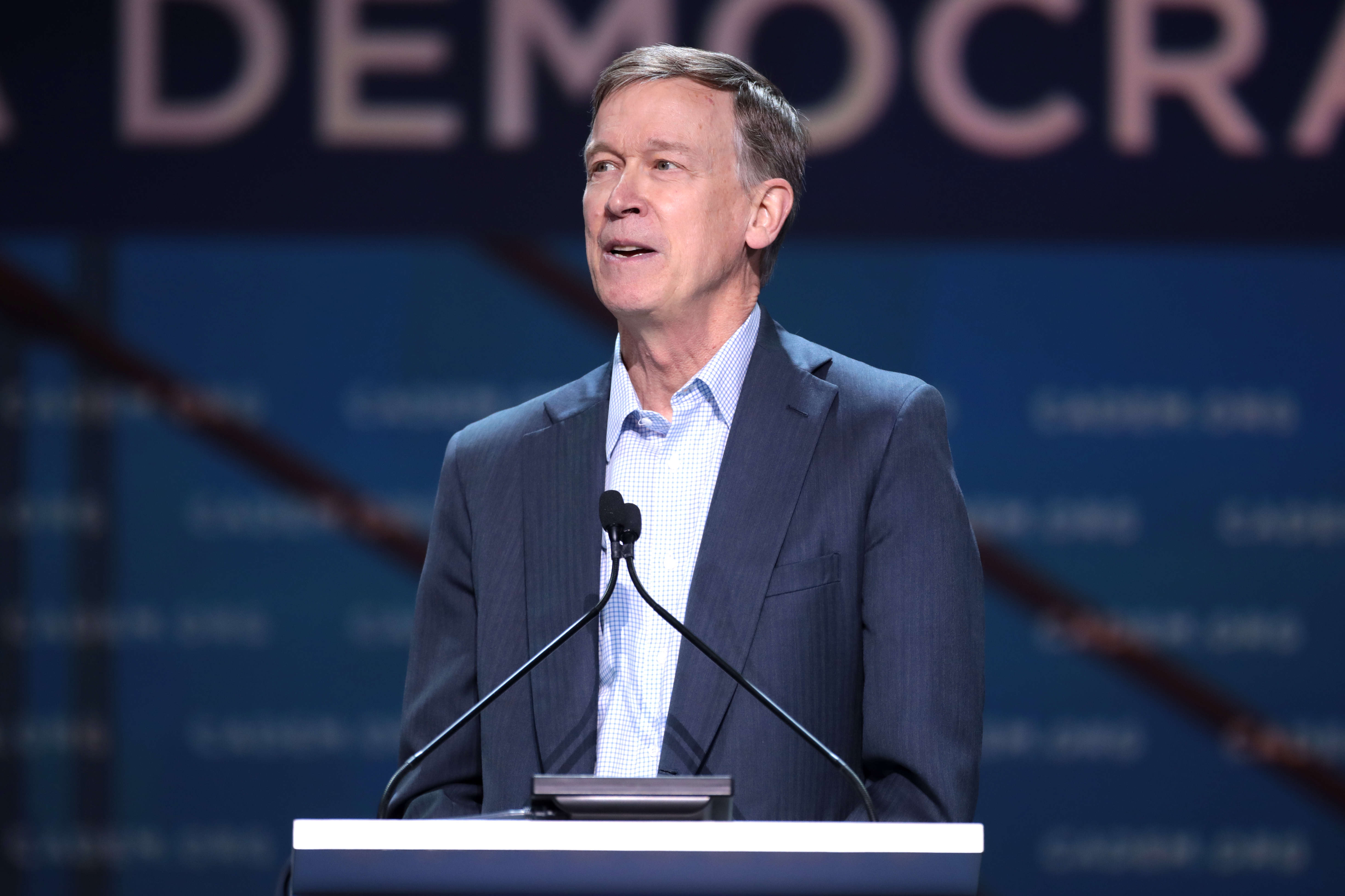 Former Governor John Hickenlooper speaking with attendees at the 2019 California Democratic Party State Convention at the George R. Moscone Convention Center in San Francisco, California.